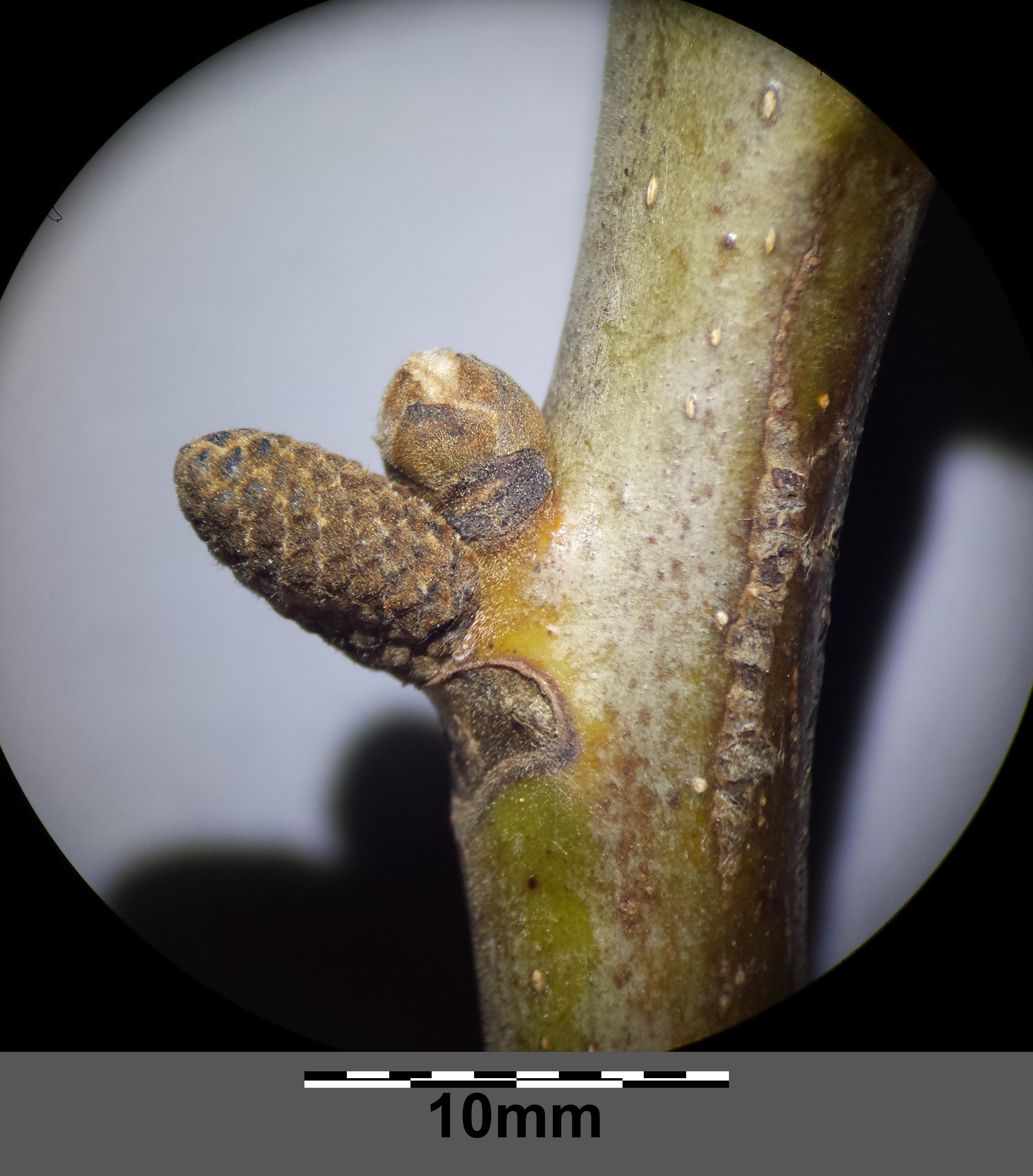 Branch with buds Taxonym: Juglans regia ss Fischer et al. EfÖLS 2008 ISBN 978-3-85474-187-9 Location: near Niederhollabrunn, district Korneuburg, Lower Austria - ca. 350 m a.s.l. Habitat: slope